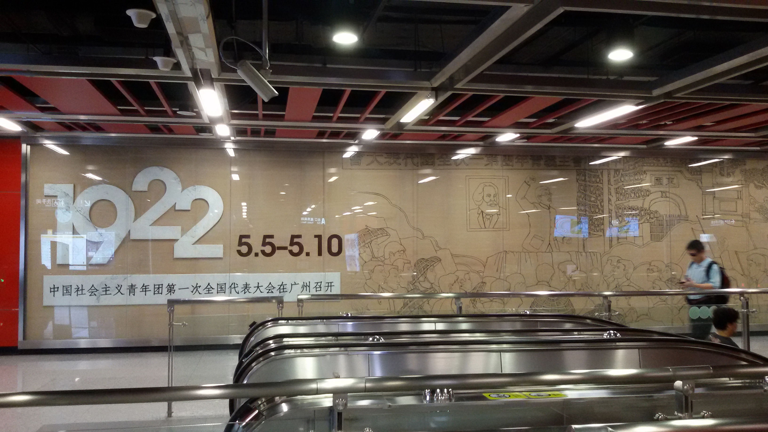 Cultural Wall in Tuanyida Square Station